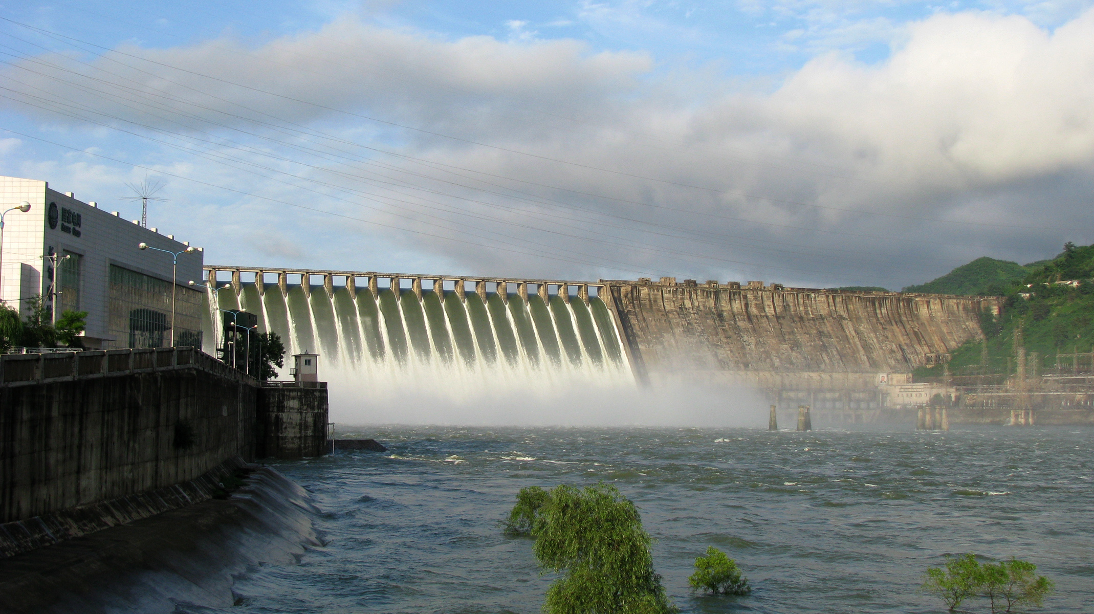 The Supung Dam on the Yalu River bordering China and North Korea.